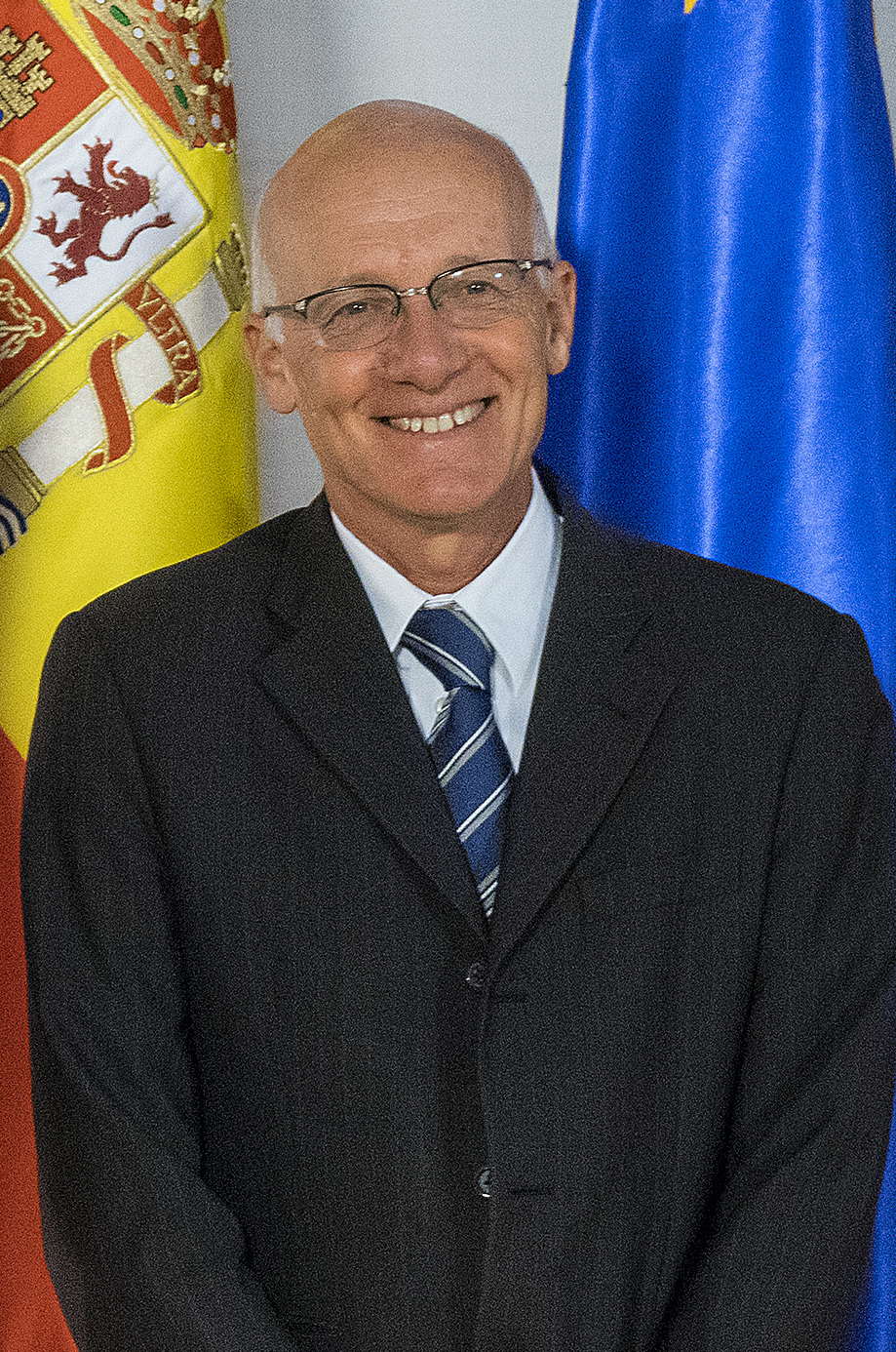 La presidenta de la Junta, Susana Díaz, recibe en San Telmo al embajador de Canadá, Matthew Levin./12/09/17- Foto: OPJA -GC Fotografía oficial de la Junta de Andalucía, se pone a disposición solamente para su publicación por las organizaciones de noticias y/o para la impresión de uso personal por parte del sujeto (s) de la fotografía. La fotografía no puede ser manipulada de ninguna manera y no se puede utilizar en materiales comerciales o políticos, los anuncios, productos, promociones que de alguna manera sugieran aprobaciçón o respaldo de la Junta de Andalucía.